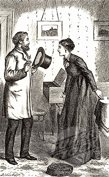 Rachel Verrinder confronting Franklin Blake over the Moonstone. Arthur Fraser (1865-1898) for Wilkie Collins' Moonstone, 1890 edition.